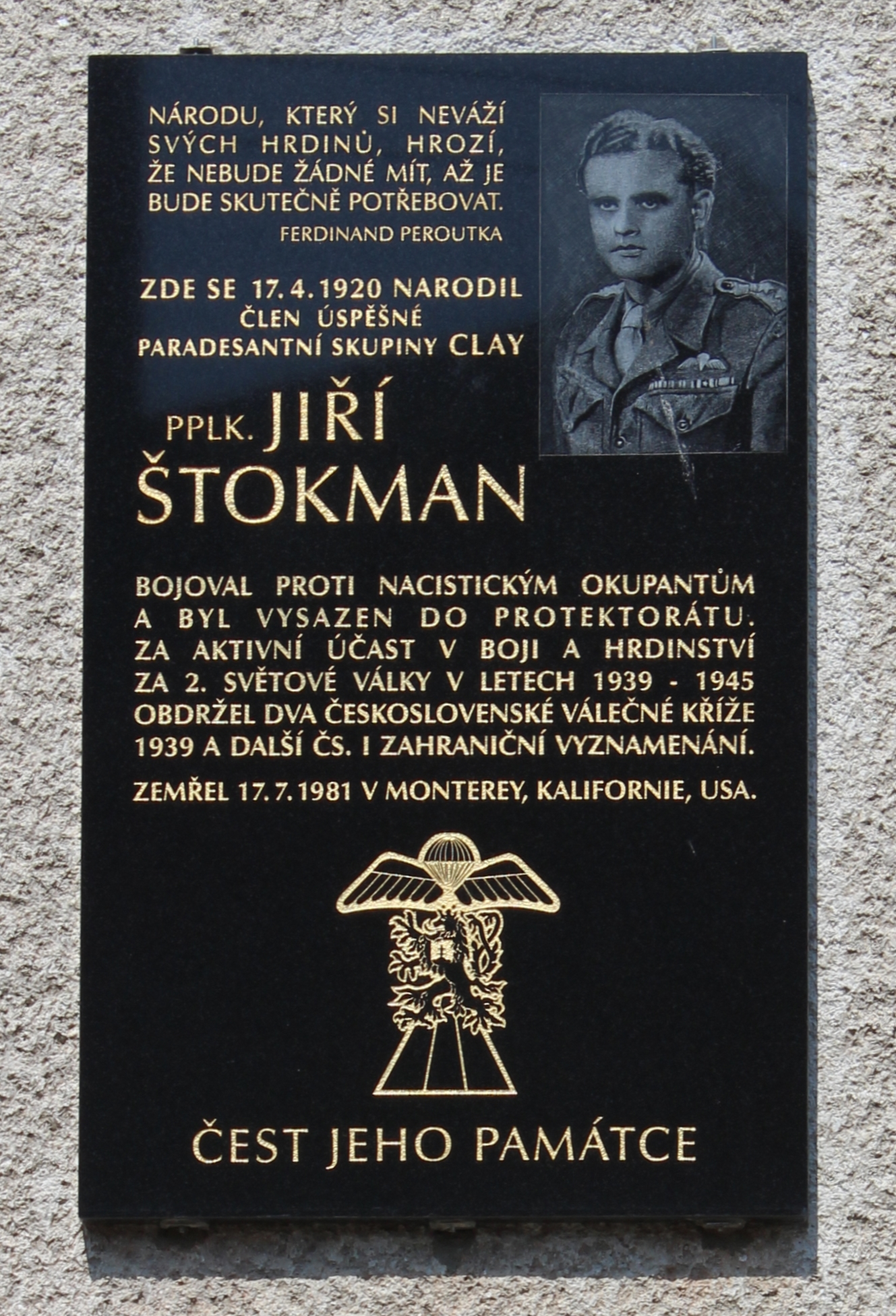 Buchlovice. Uherské Hradiště District, Zlín Region, Czech Republic Project: Chráněná území This photograph was taken with a DSLR from WMCZ's Camera grant.